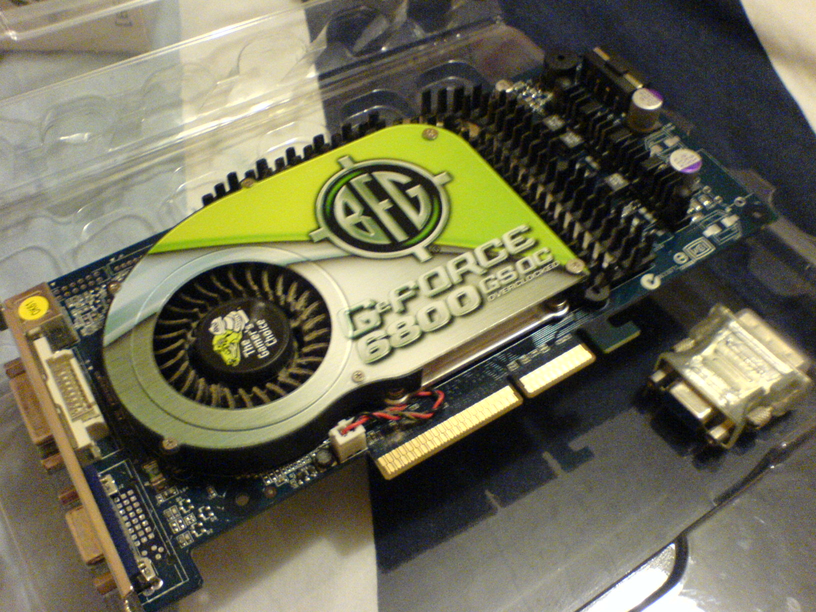 BFG GeForce 6800GS OC 256MB